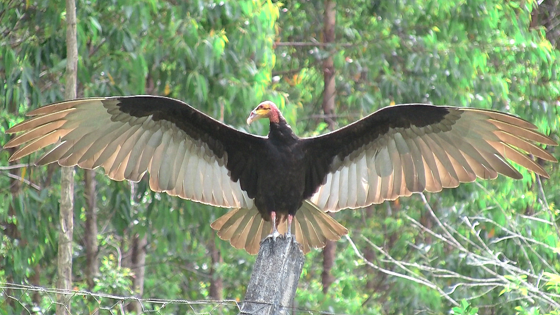 Cathartes burrovianus, Atlantic forest, Bahia, Brazil